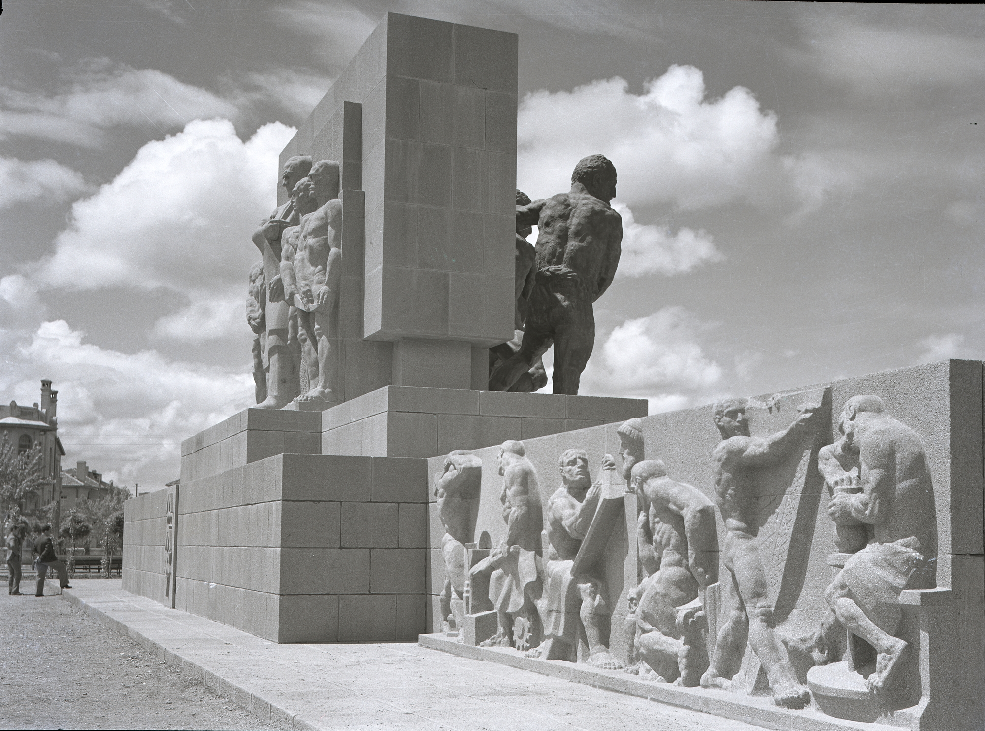 In the construction plan of Jansen, a plot which was on the north end of Devlet Mahallesi (State Neighbourhood) and near to the General Directorate of Turkish Red Crescent was allocated as a park. The park built in mid-1930s. The Monument of Safety, as it was called back then, was placed in the middle of it. Sculptor Anton Hanak came to Ankara in 1932 and observed the site allocated for the monument. He visited many quarries and planned the drafts. He wanted to build a monument that would face two sides. The bronze figures which were to be put on the front side (facing the Kızılay Square) were casted in Erdberg Foundry in Vienna. Unfortunately he died in 1934. The construction of the monument was undertaken by another Austrian colleague, Josef Thorak. Güven Park ve Güven Anıtı, 1940’lı yıllar. Jansen Planı’nda, Devlet Mahallesi’nin kuzey ucunda, Kızılay Genel Müdürlüğü’ne yakın bir alan, park olarak gösteriliyordu. 1930’ların ortasında yapıldı. Ortasında o zamanki adıyla, Emniyet Abidesi yer aldı. Heykeltıraş Anton Hanak 1932’de Ankara’ya geldi. Anıt için ayrılan yeri gördü. Taş ocaklarını gezdi. Taslaklarını hazırladı. İki cepheli bir anıt yapacaktı. Ön cephede (Kızılay Meydanı’na bakan) yer alacak bronz figürleri Viyana’da Erdberg dökümhanesinde döktürdü. Ancak 1934’te ölüverdi. Anıt’ın yapımını yine Avusturyalı olan meslektaşı Josef Thorak üstlendi. Ön taraftaki iki bronz figürün ve taş kabartmaların altında, Atatürk’ün “Türk, Öğün, Çalış, Güven” sözü okunuyordu. Güven Anıtı’nın iki tarafında havuz, mermer ve ahşap oturma yerleri yapıldı. Park, çiçeğe boğuldu. Yıllar sonra, Millî Eğitim Bakanlığı’na bakan kısmı çocuk bahçesine dönüştürüldü. Güven Park’ın bugünkü görünümü 70 yıl öncesinden çok farklıdır.